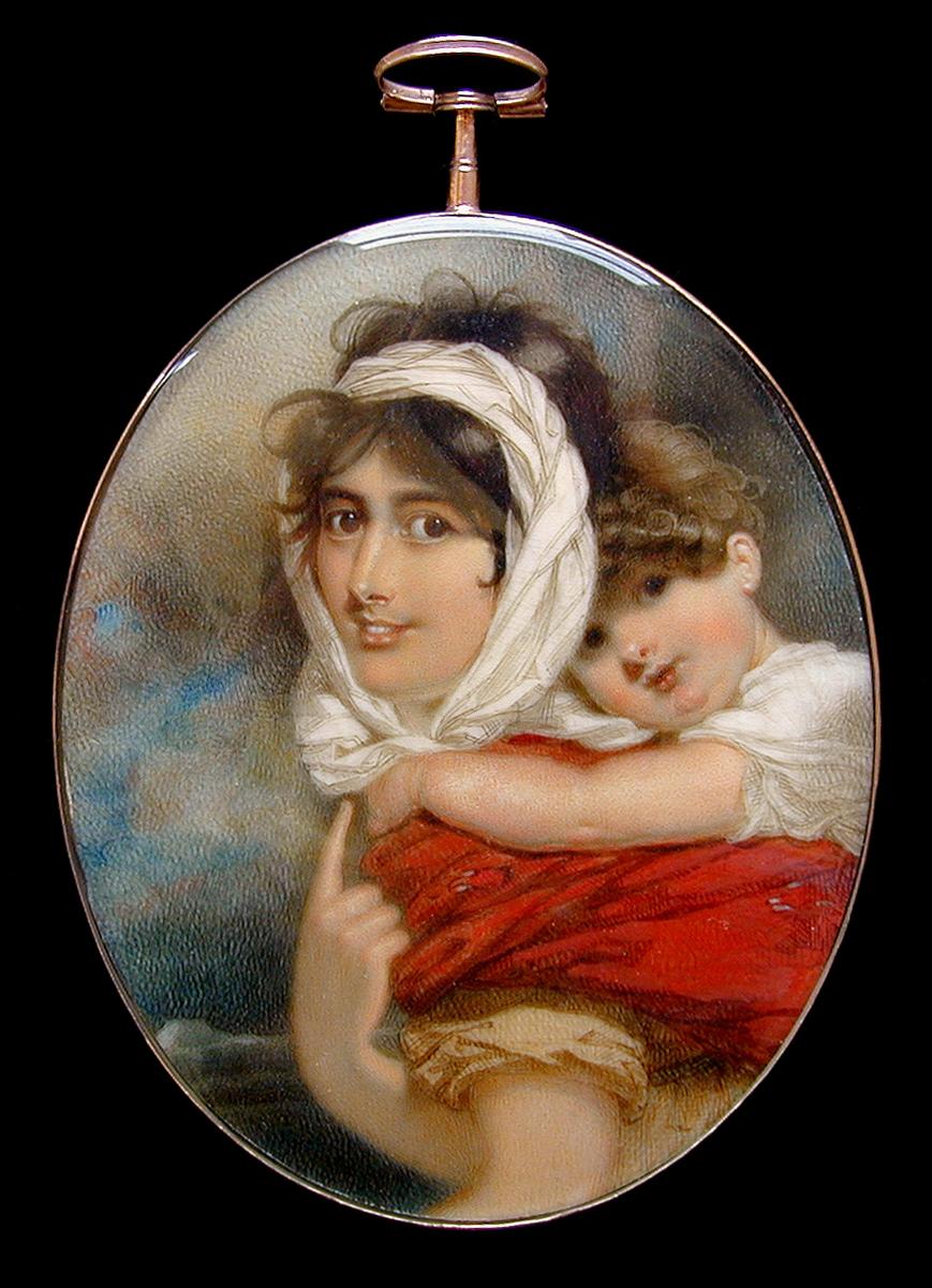 Portrait of Anne Becher Thackery and William Makepeace Thackeray at about age 2 in Madras